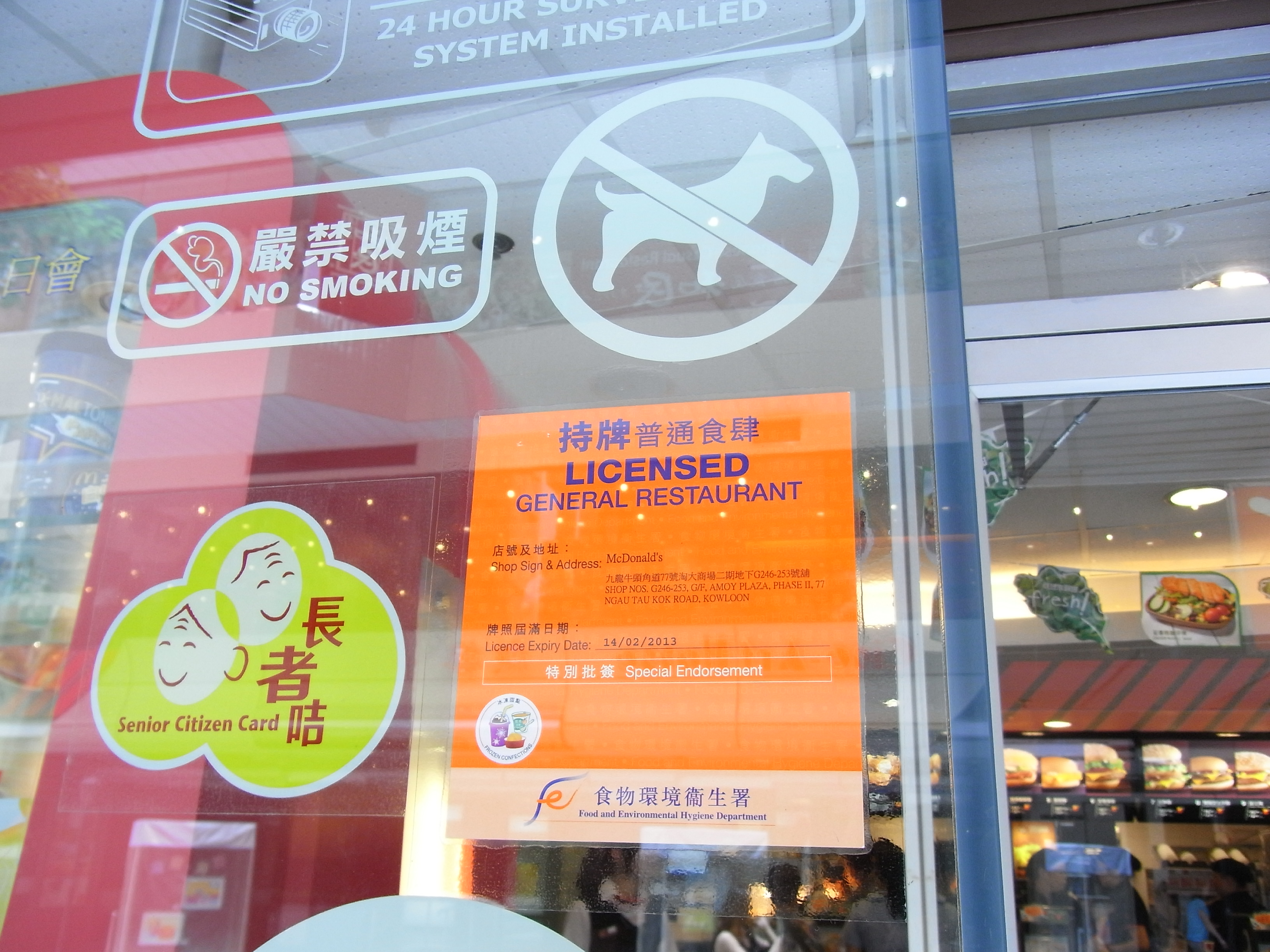 麥當勞可行使長者咭計劃, McDonald's in Hong Kong